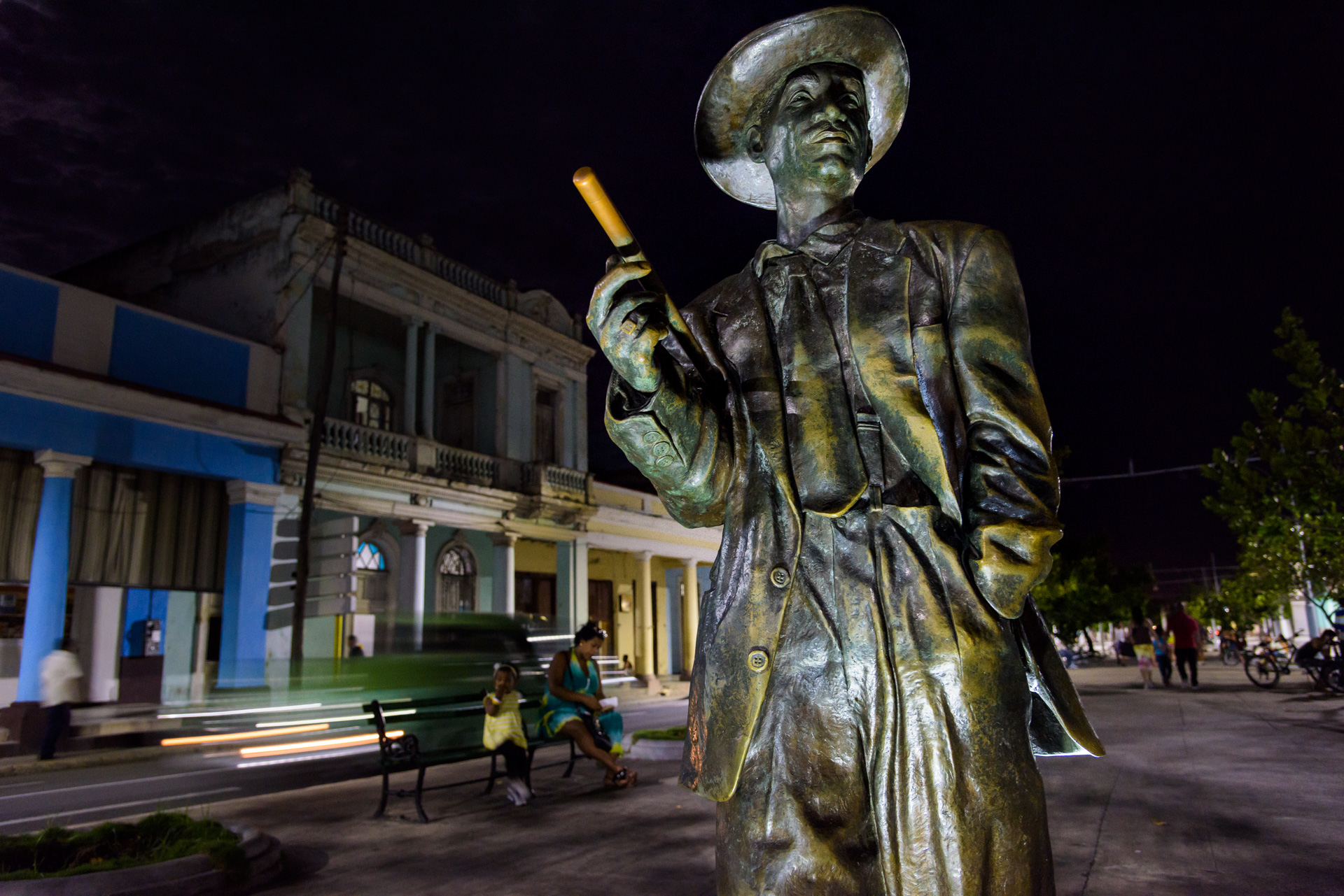 Statue of Benny More in Cienfuegos, Cuba.